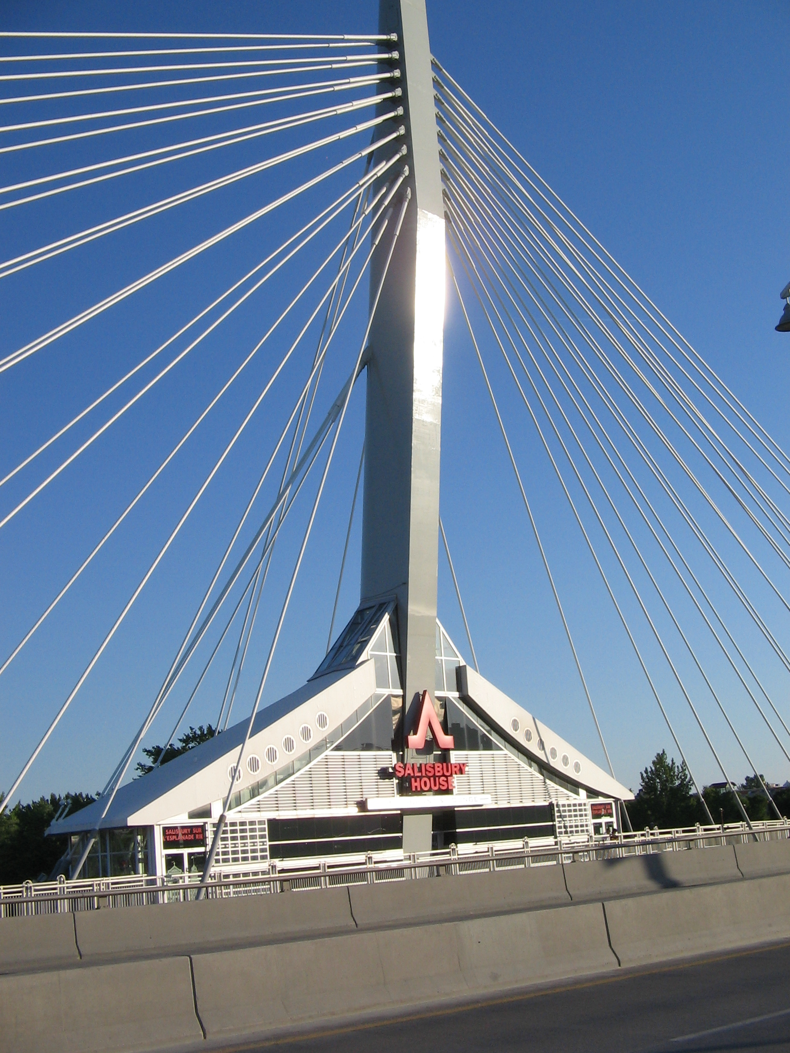 Salisbury House Restourant